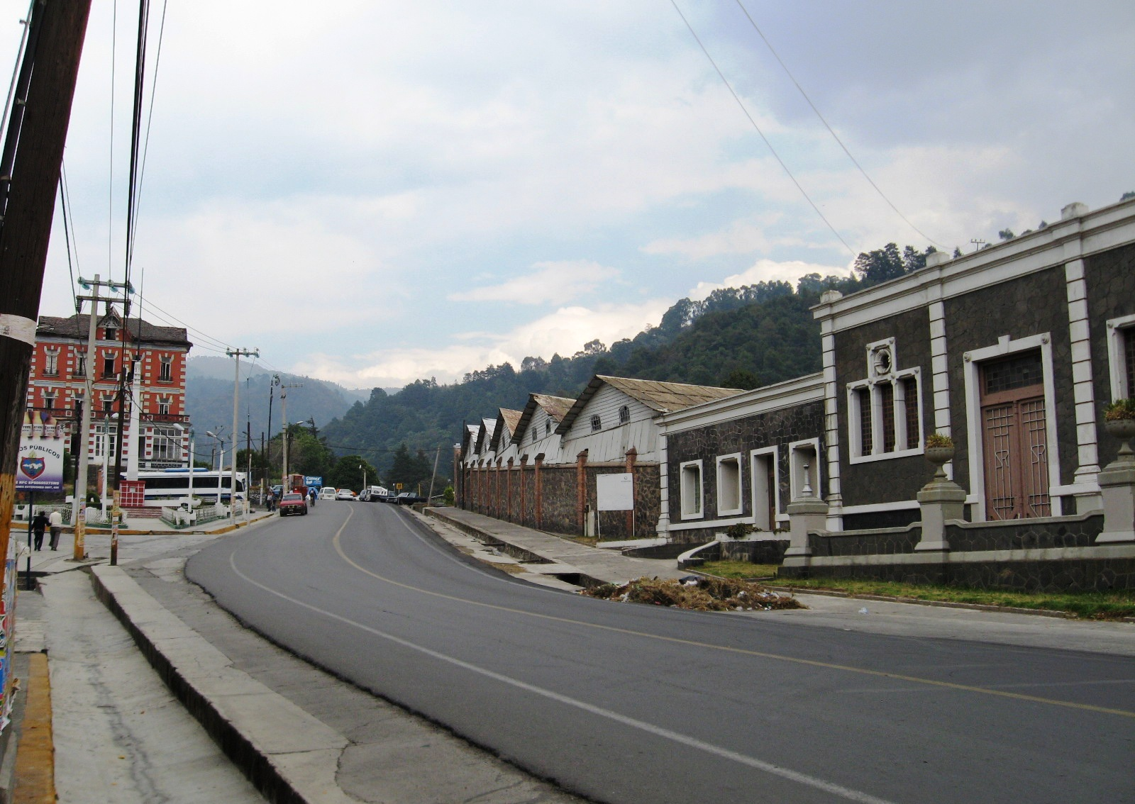 Main road through San Rafael, Tlalmanalco, Mexico State, Mexico